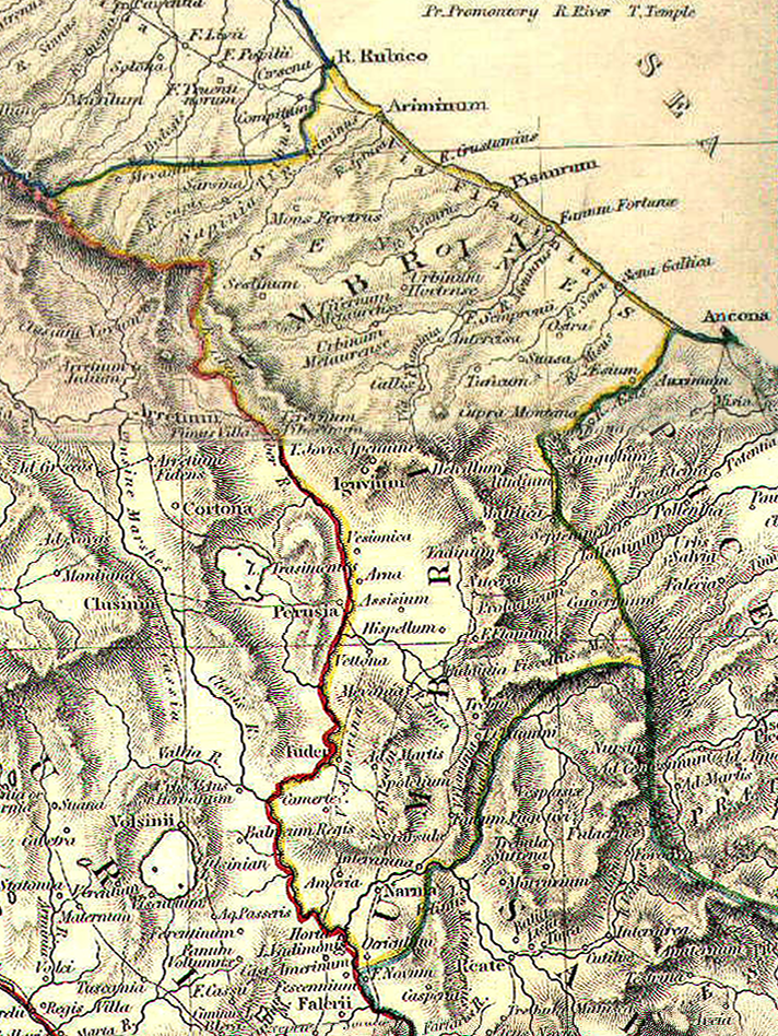 Reference map for Umbria et Ager Gallicus from The Historical Atlas by William R. Shepherd, 1911